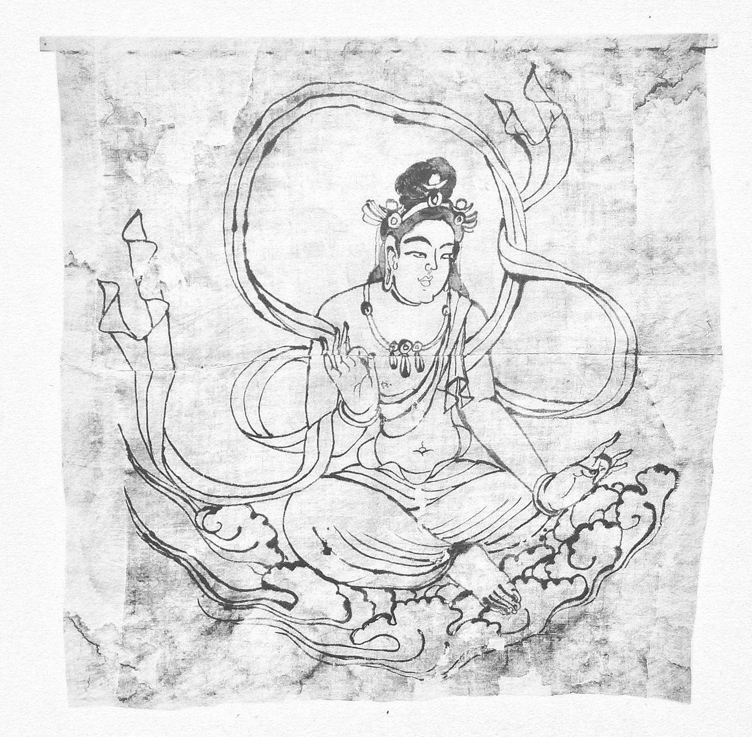 RAWING OF BODHISATVA, Ink on hemp, 138.5x133cm , Shosoin Collection, Nara, Japan, ACE 8th century attributed